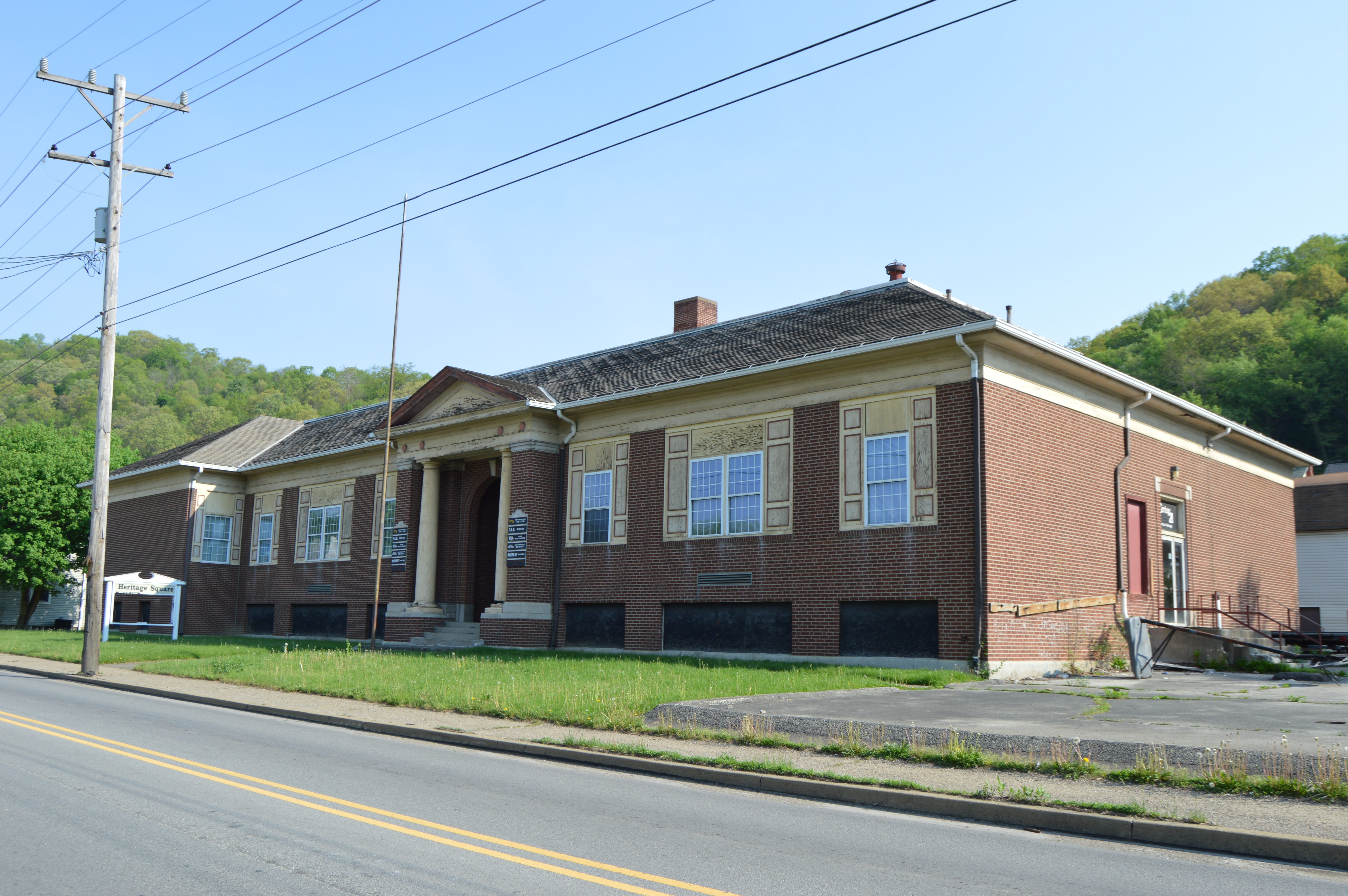 An office building (a former school?) at 170 Lincoln Street (Pennsylvania Route 66) in North Vandergrift, Pennsylvania, United States.